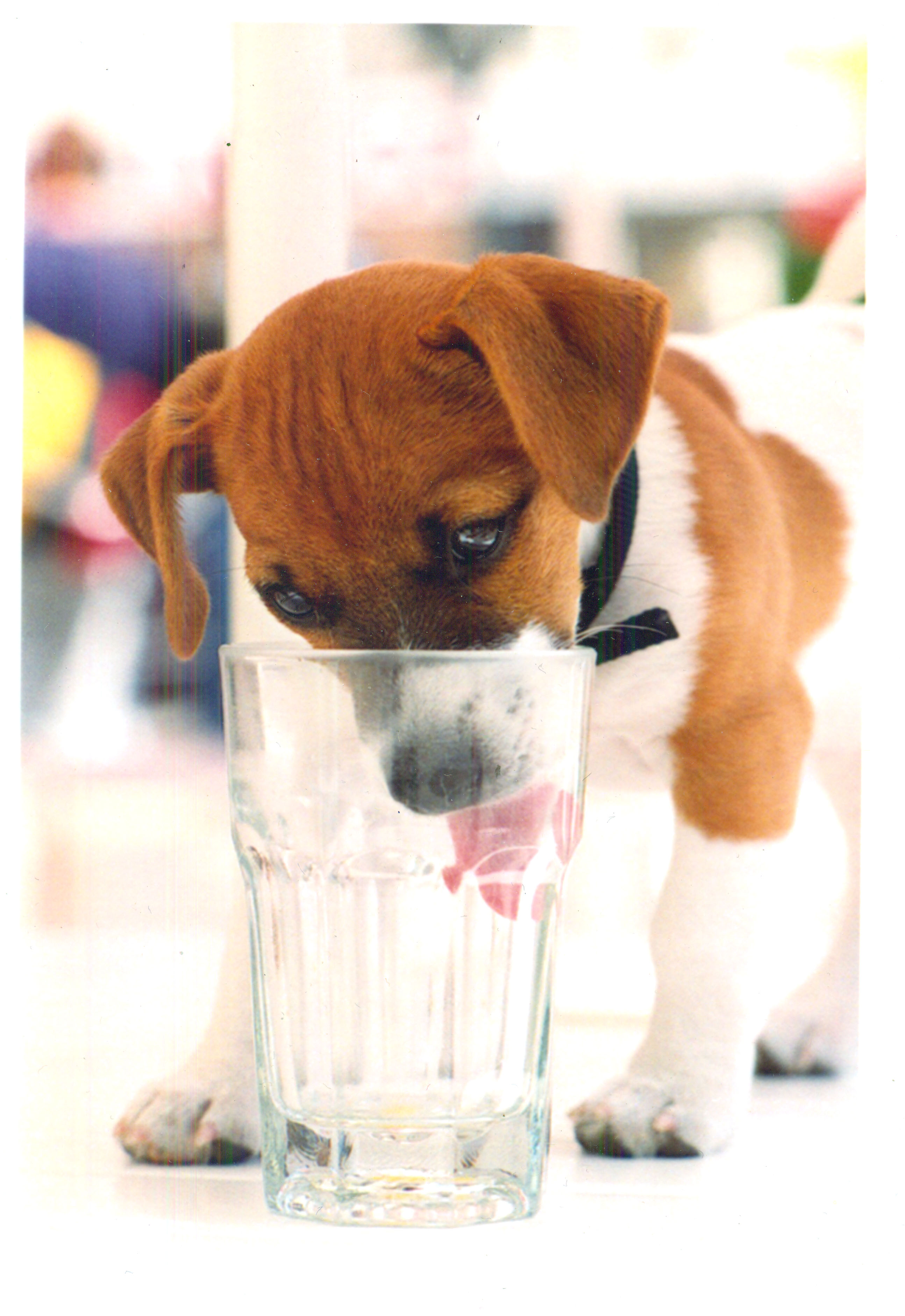 Thirsty Jack Russell Terrier. Photo by Nancy Wong